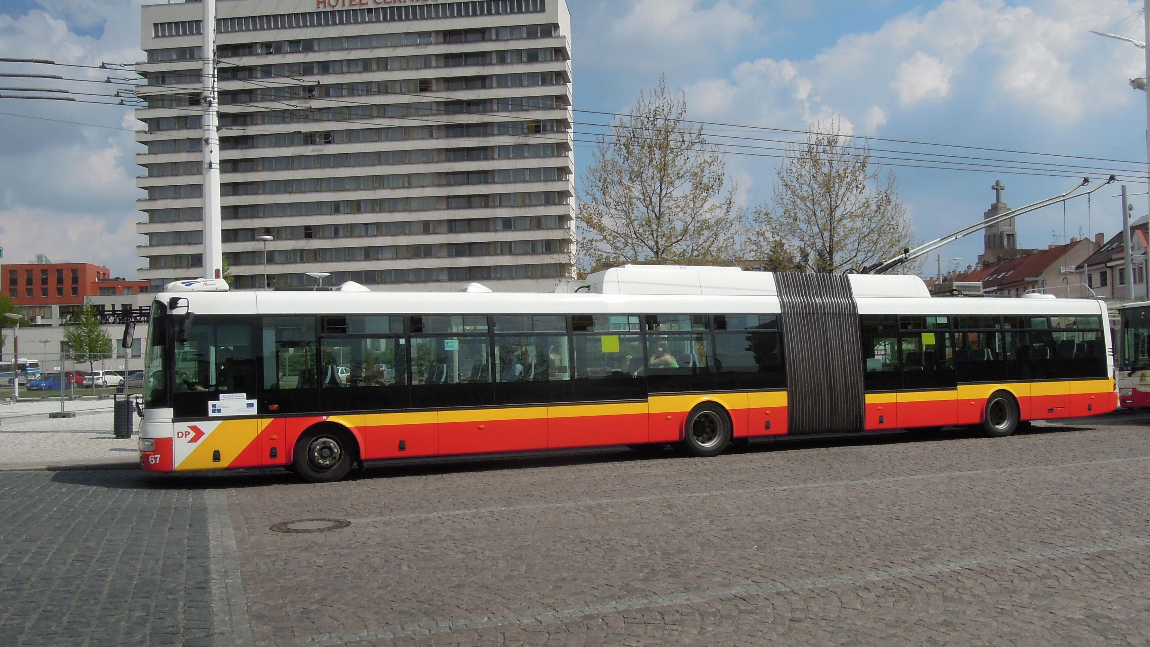 Trolleybus Škoda 31Tr SOR of Dopravní podnik města Hradce Králové in Hradec Králové , Hradec Králové Region, Czech Republic